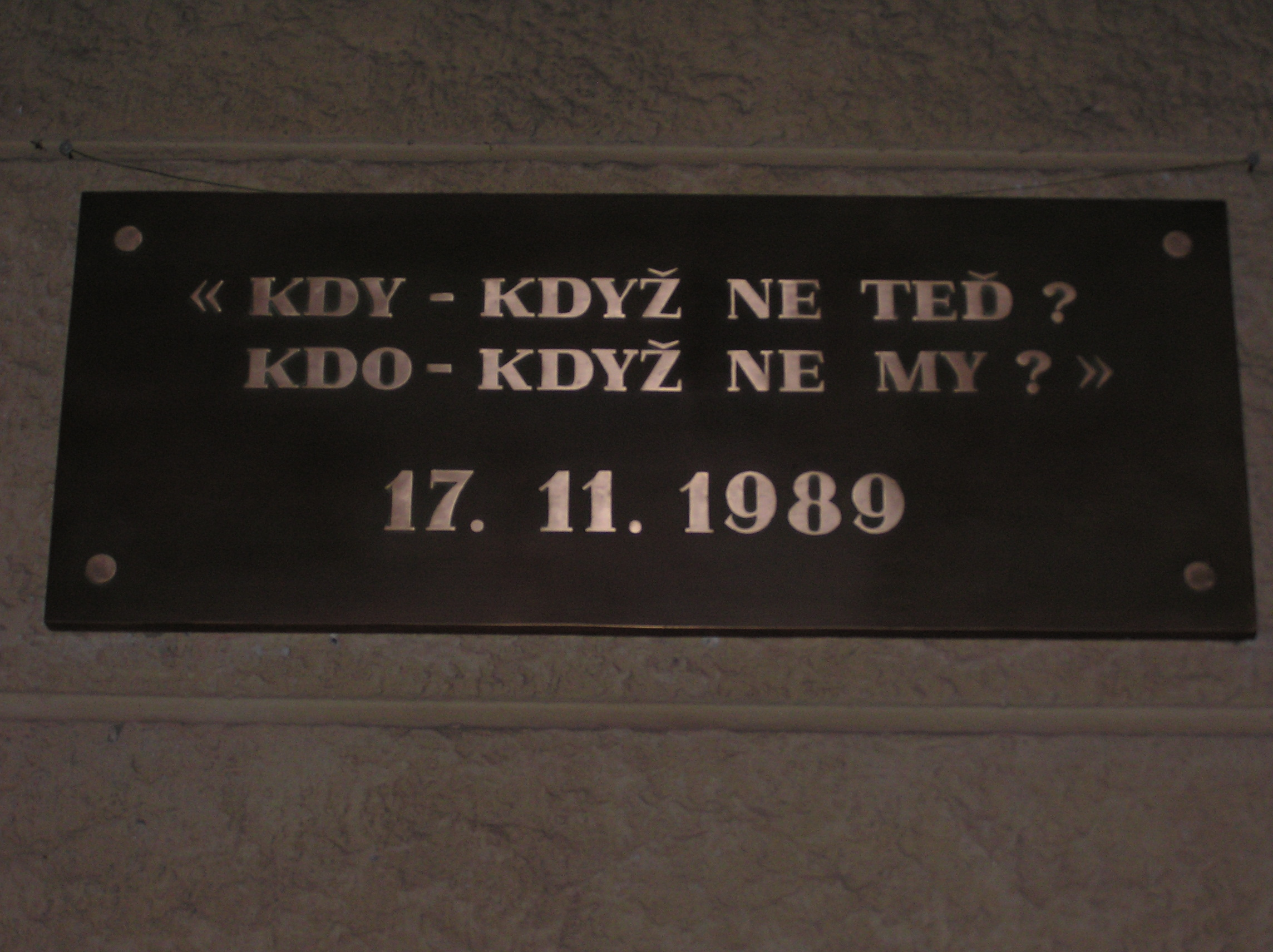 Memorial plaque on Albertov, the place where Velvet revolution started. Translation: when – if not now? who – if not us?